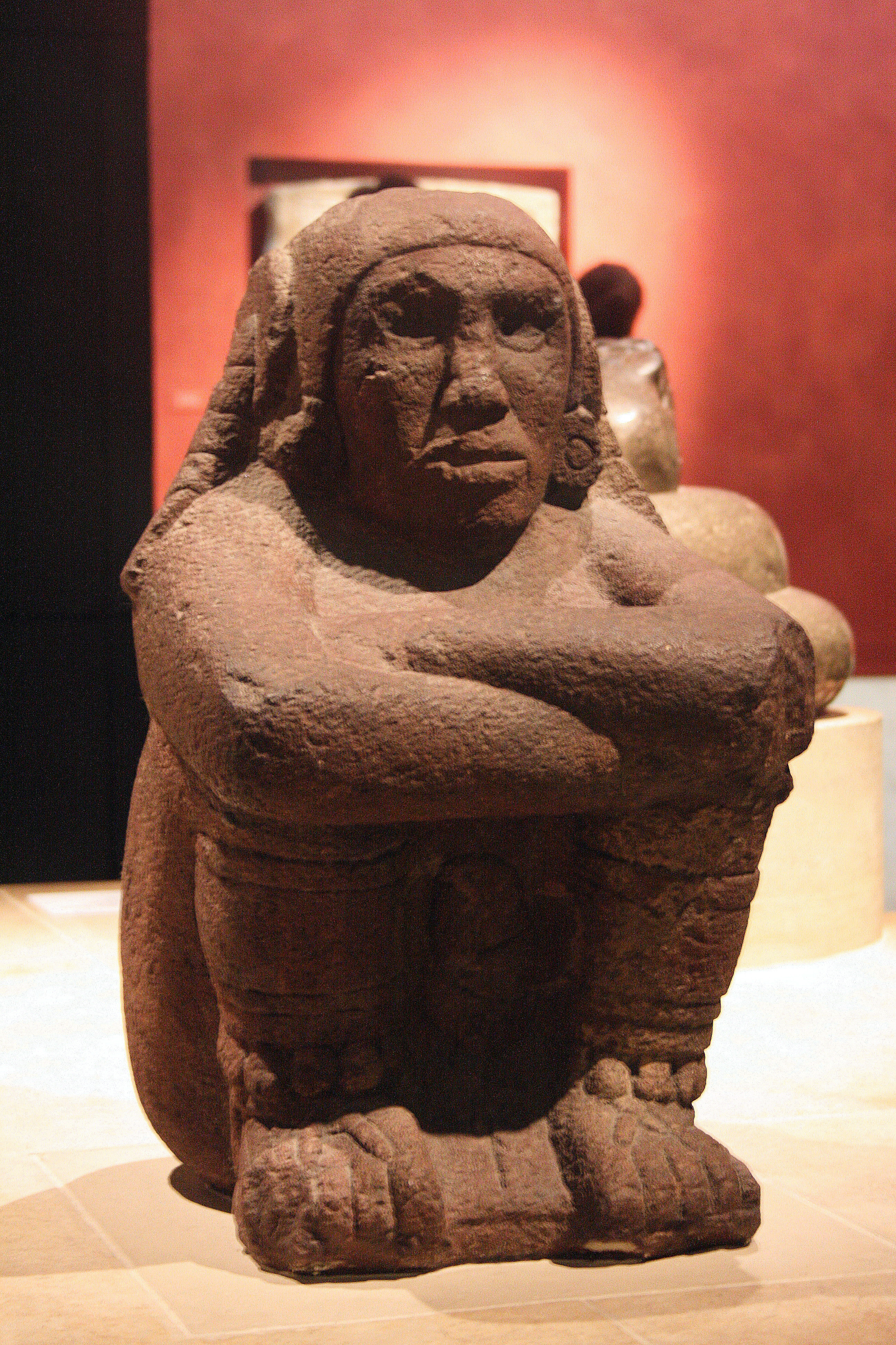 Xochipilli, god of music and dance. Aztec sculpture (AD 1325-1521)